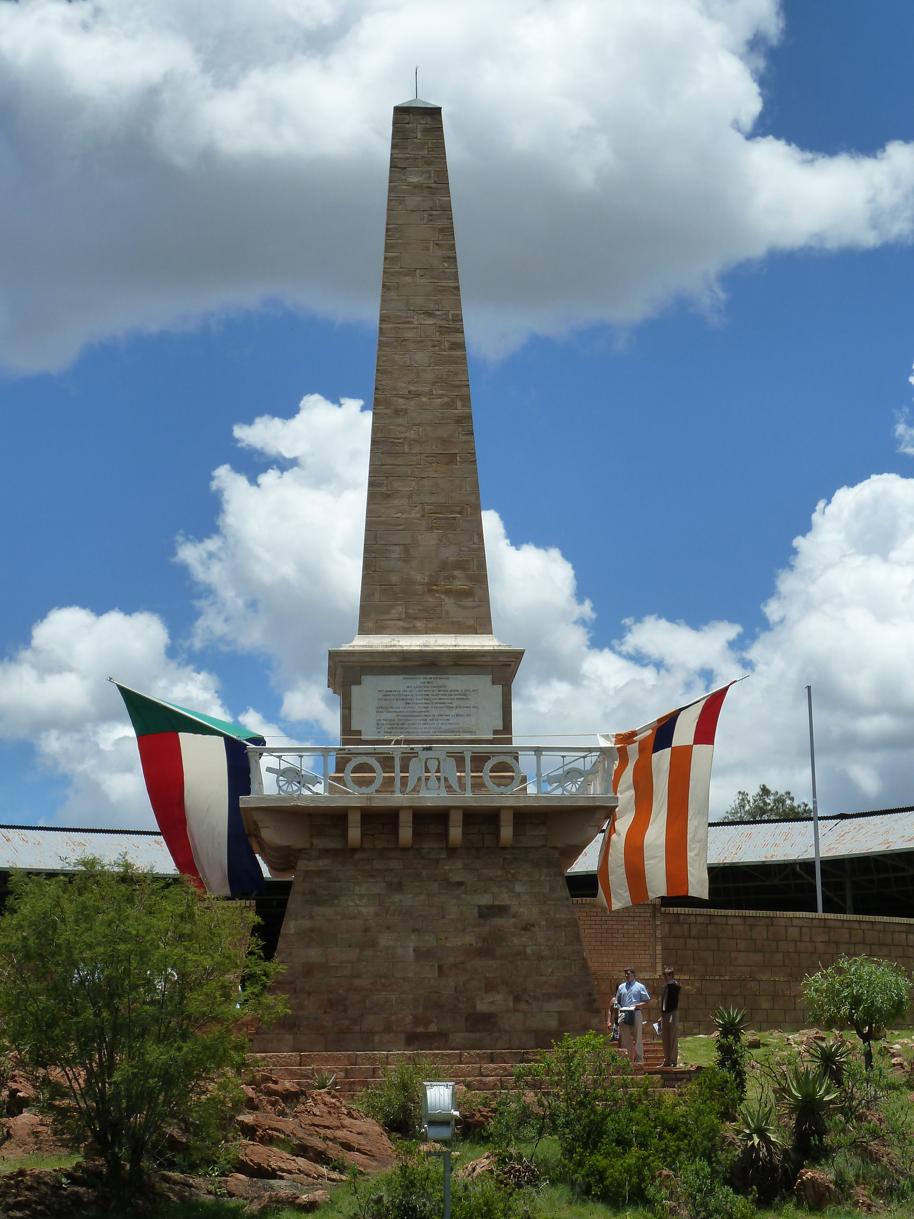 Paardekraal Monument in Krugersdorp, South Africa, adorned by the flags of the Z.A.R. and Orange Free State republics in celebration of the Day of the Vow, and the vow of 1880 to reestablish an independent Z.A.R. government